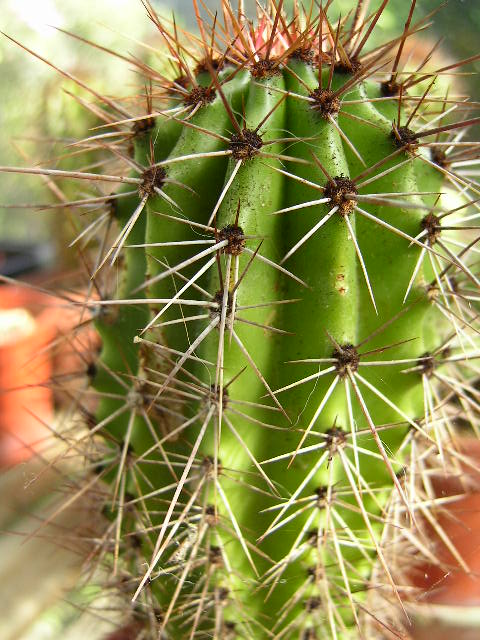 A small green house grown Stenocereus thurberi, The Organ Pipe Cactus.